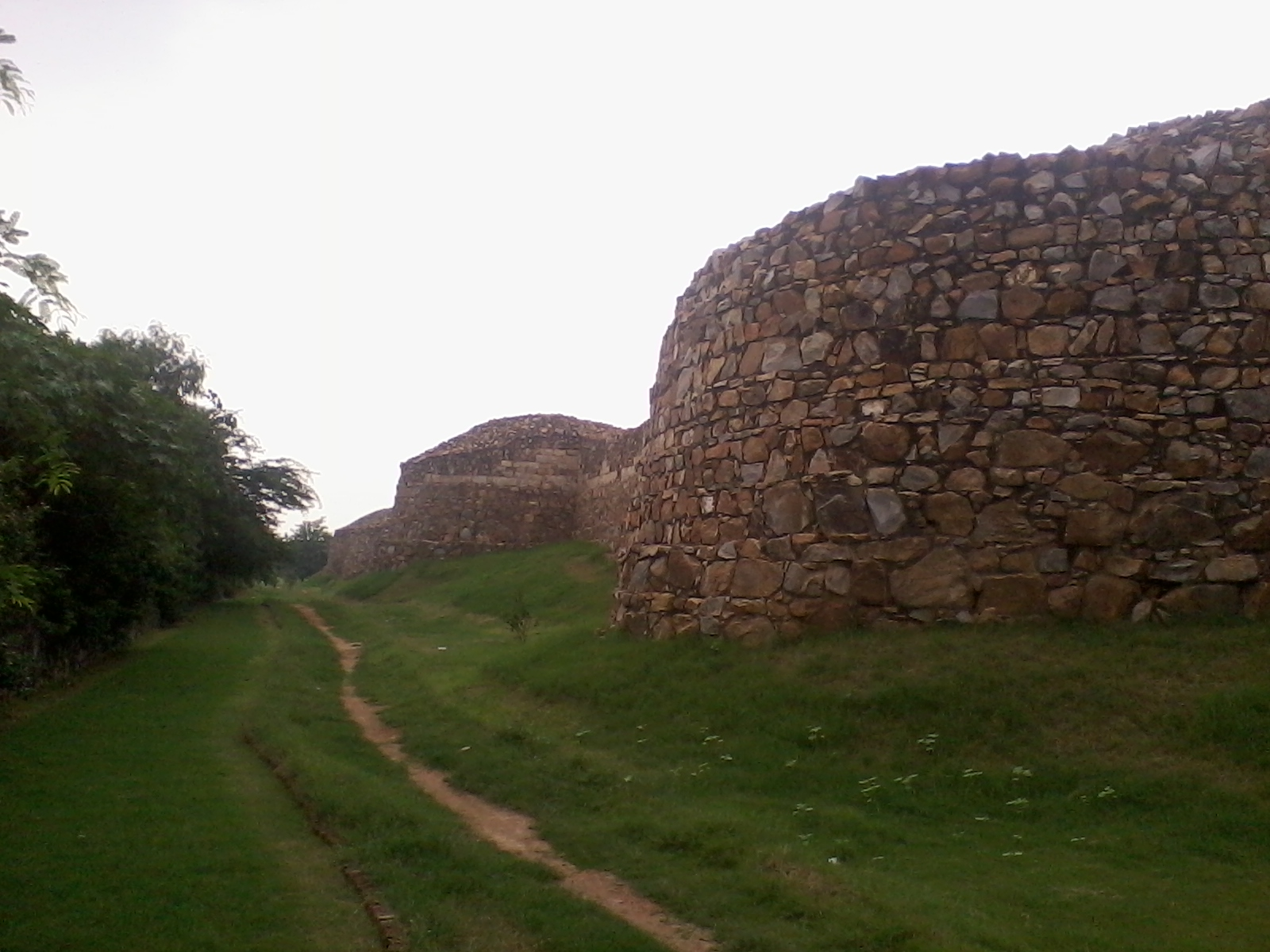 Wall of Rai Pithora's fort including gateways and bastions